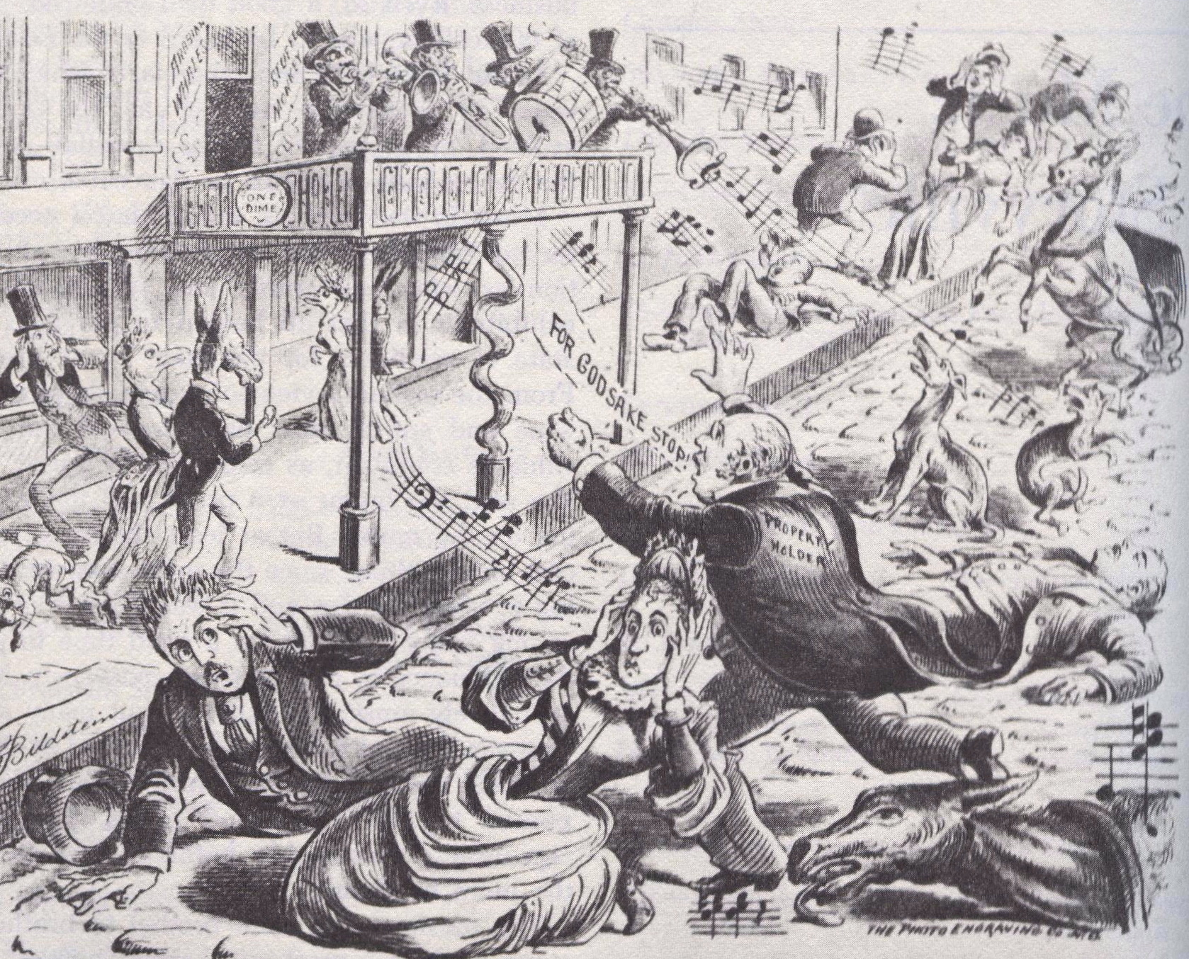 Cartoon showing band playing to promote dime museum in New Orleans, 1890. This was on the cover of New Orleans newspaper "The Mascot" for 15 November, 1890. "Robinson's Band Plays Anything". Cartoon shows a caricatured African-American band playing on a balcony. People, horses, and dogs are either horrified or knocked prostrate into the street by the music. A man labeled "Propery Holder" yells "For God Sake Stop". People with heads of birds or jackasses walk into the museum. New Orleans historian Al Rose called this "The earliest known illustration of a jazz band". The instrumentation of cornet or trumpet, trombone, clarinet, and drums is suggestive of the early jazz bands of some 15 years later, but without other evidence the musical style played by the band shown can only be speculated about. Note that the tromobone with the backward facing bell was not just a conceit of the cartoonist; military surplus instruments of this style were sold at the time. Note also the drummer seems to have a cymbal attached to the bass drum. Rose states Robinson's Dime Museum was on Basin Street. However a Detroit Publishing Company photo from about 1890 (LC-D418-8102) shows "Eugene Robinson's Museum & Theatre" on the 700 block of Canal Street. (Possibly the business was located on both streets at different times.)